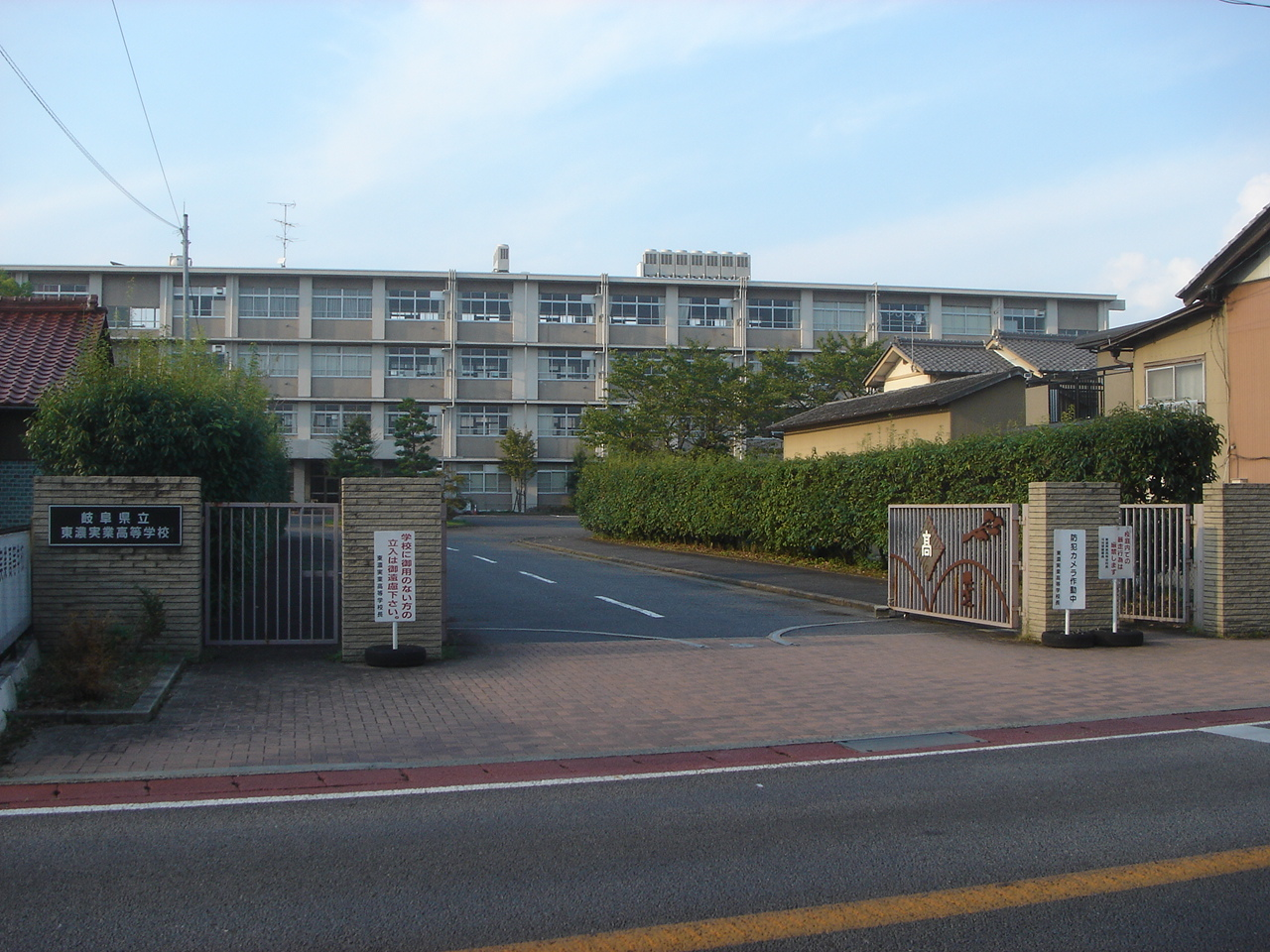 Tono-Jitsugyo High school in Gifu Pref.（岐阜県立東濃実業高等学校）,Mitake,Gifu,Japan(岐阜県御嵩町)で撮影。手前の道路が国道21号。